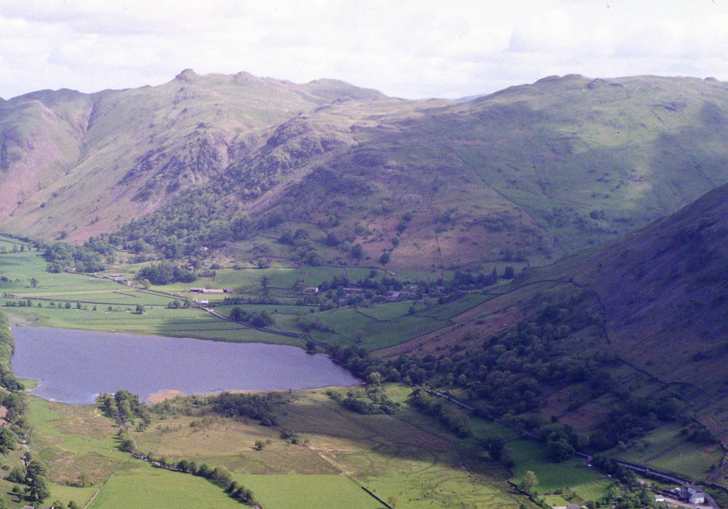 Personal photograph taken by Mick Knapton